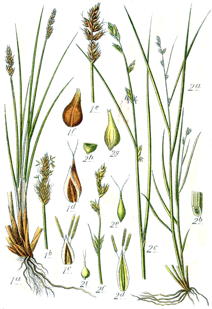 1. Carex diandra Schrank, syn. Carex teretiuscula Gooden. 2. Carex remota L. Original Caption 1. Draht-Segge, Carex teretiuscula 2. Winkel-Segge, C. remota